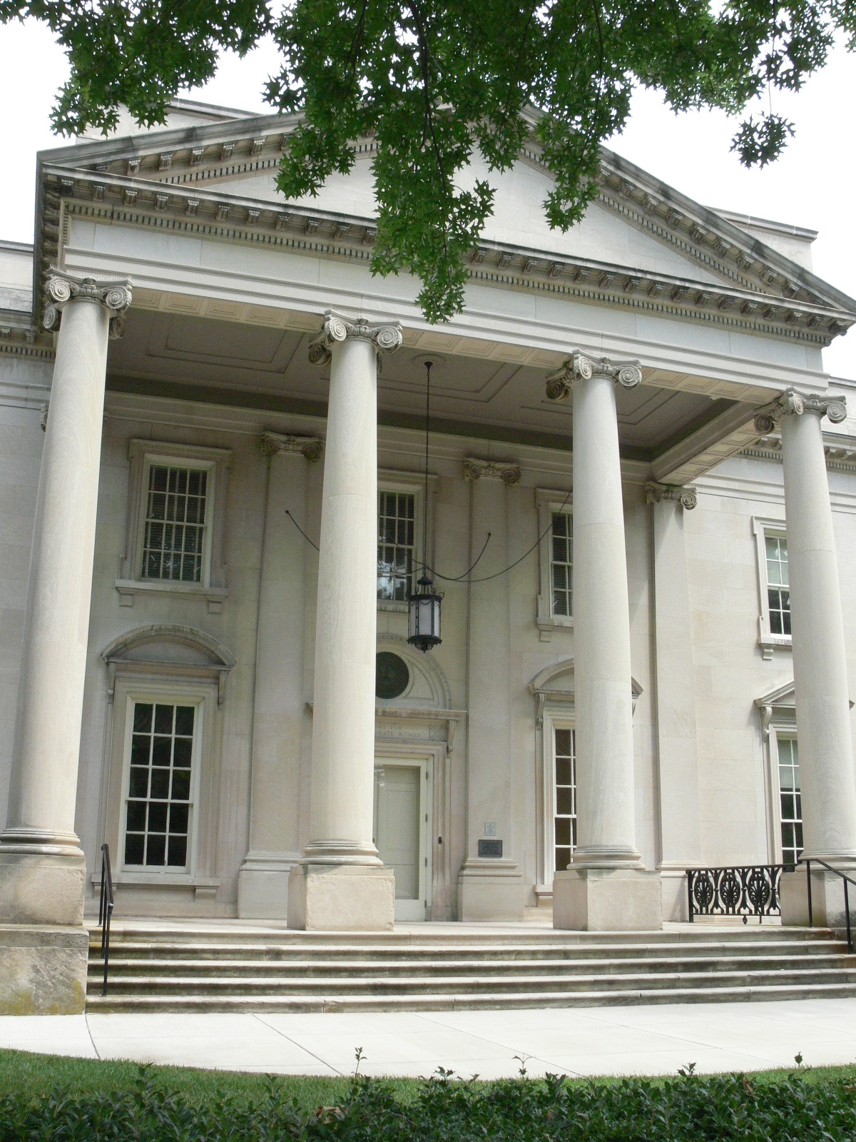 The Pauley Center of the Virginia Museum of Fine Arts (once the Home for Confederate Women) in Richmond, Virginia.